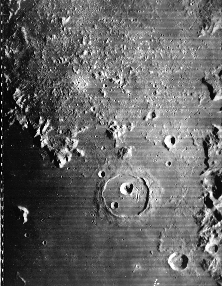 Montes Alpes on the Moon